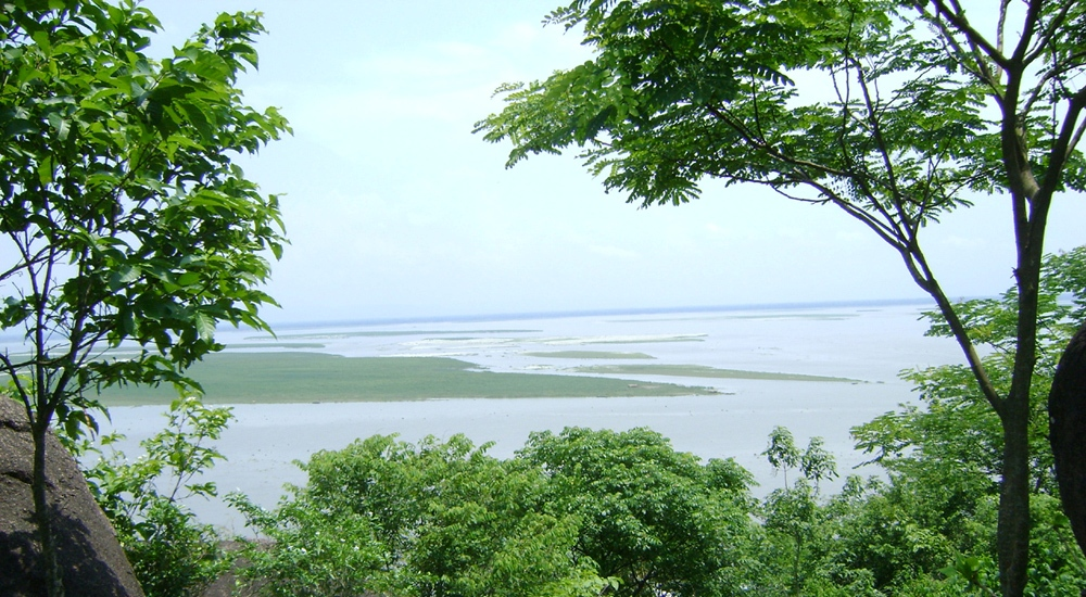 brahmaputra